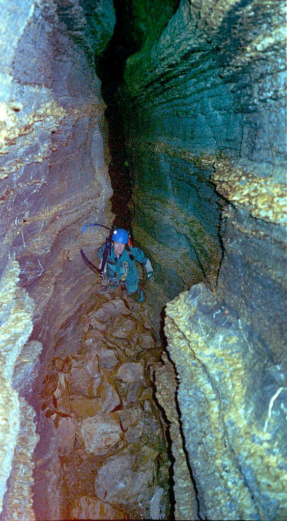 Typical passage in Neffs Canyon Cave in Utah. The cave is developed along a single fissure passage with lots of loose rocks on the floor and dropoffs requiring rope for descent. You can see rigging on the left wall for a drop that the caver is on.